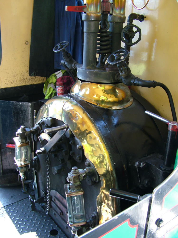 The cab of Dolbadarn of the Llanberis Lake Railway.